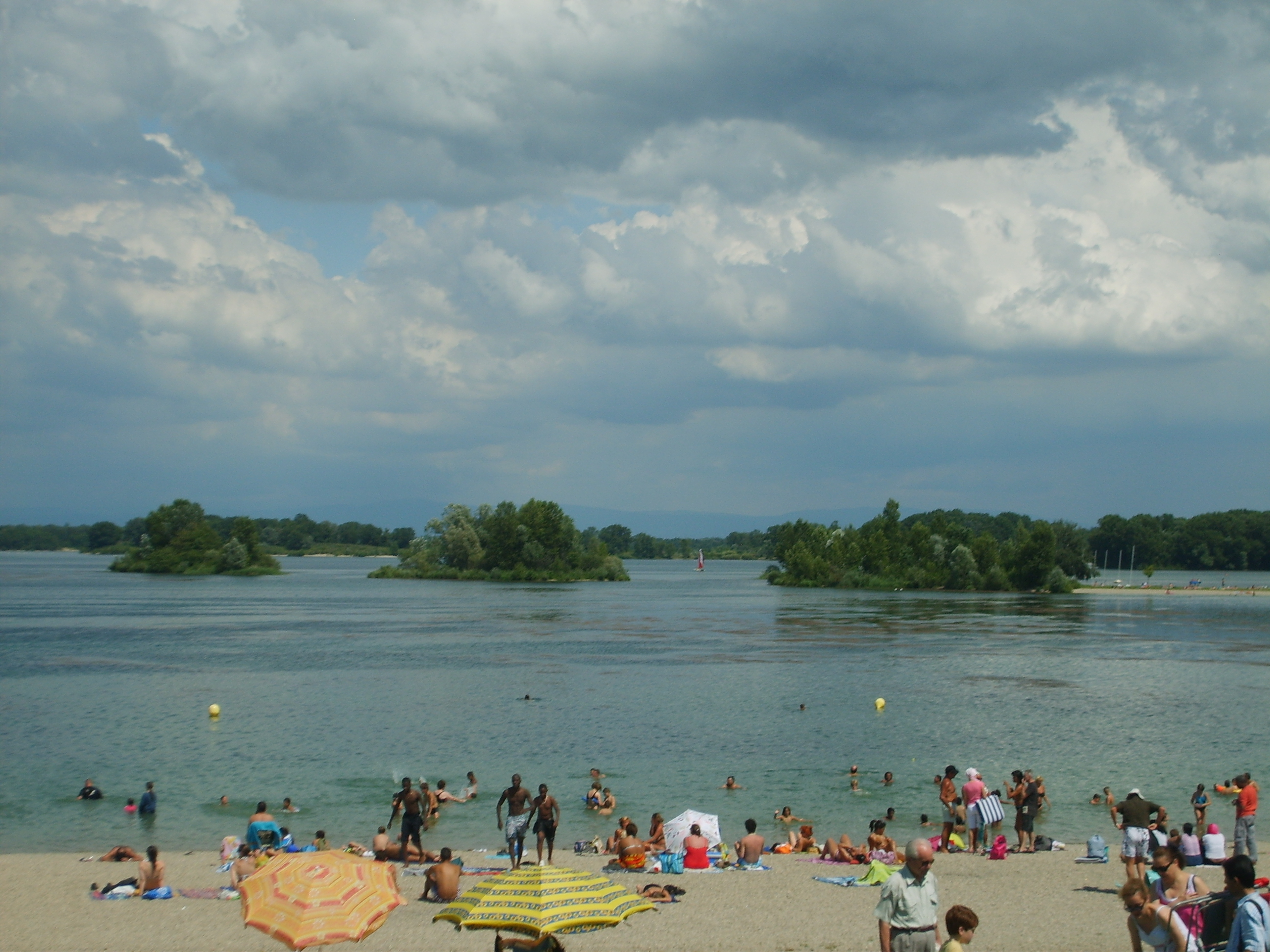 Park of Miribel Jonage